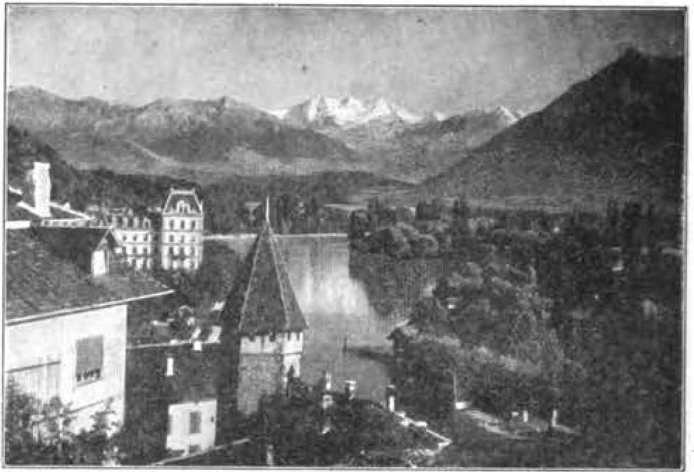 Thun, in the Swiss Alps. Illustration from Maury's New Elements of Geography for Primary and Intermediate Classes.